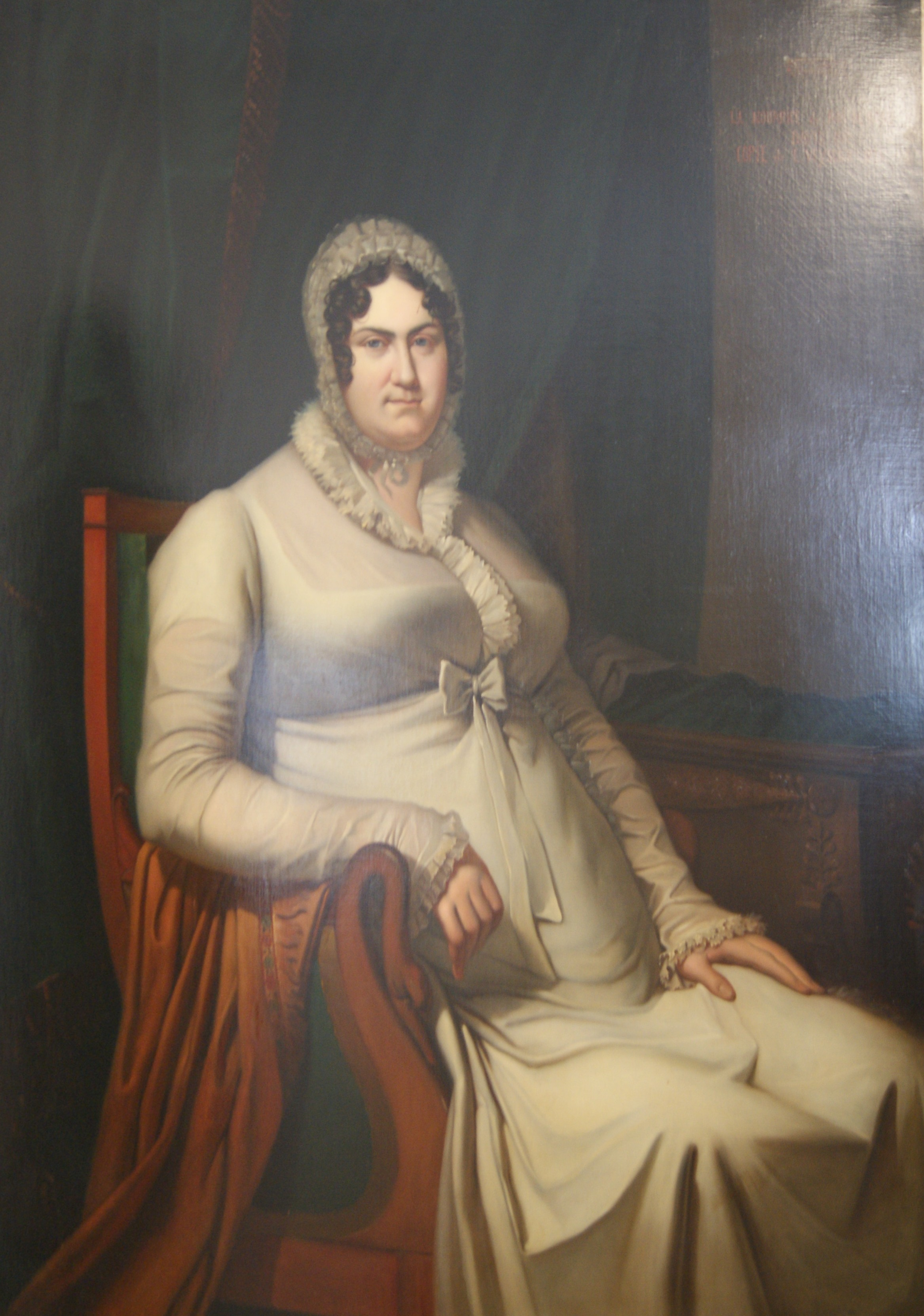 Portrait of Marie Auchard (1787-1846), wet nurse of Napoleon II